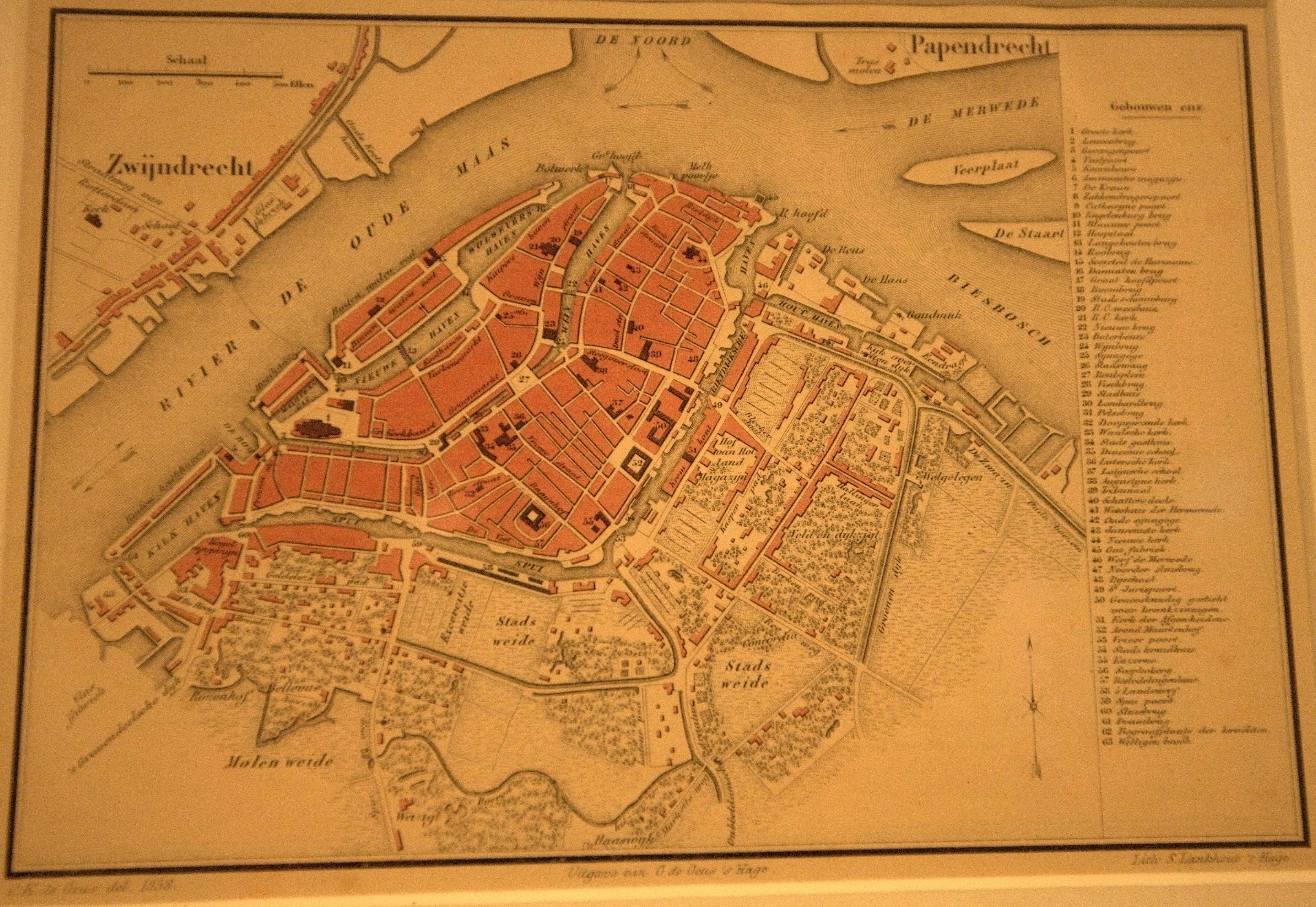 Photograph taken in the Dordrecht Museum. Not super clear due to poor lighting conditions and the lack of a tripod, but better than any other available published form of the map, including the exhibition's own books. The physical map is very small, only 19x13cm. This map is notable for its depiction of two Synagogues, a feature not apparent on many other historic maps of Dordrecht. Other sources such as suggest there was fragmentation within the local Jewish community which may have contributed to the requirement for multiple places of worship. The main Synagogue was apparently stripped and demolished. It was located at the northern edge of a square now known as Grote Markt, on the Varkemarkt street corner. The so-called Grote Markt appears to date from the 20th century, not being shown on earlier maps. Probably the Jewish area was demolished by the Nazis and replaced with this ugly square, which remains completely out of character with the surrounding buildings even today.